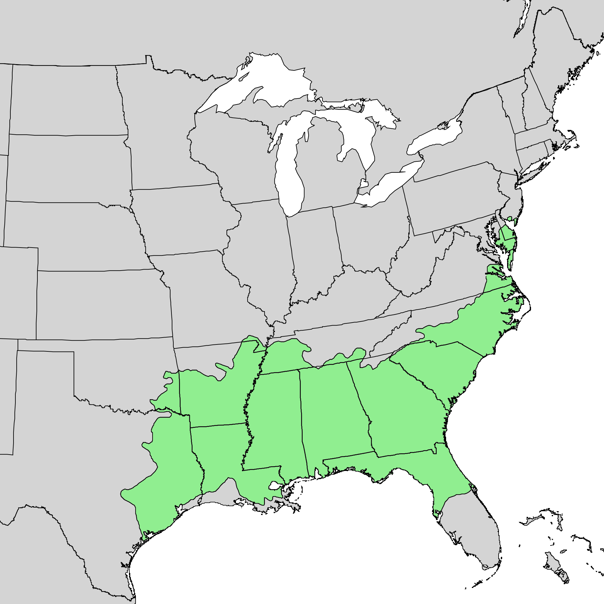 Natural distribution map for Quercus nigra — Water oak.